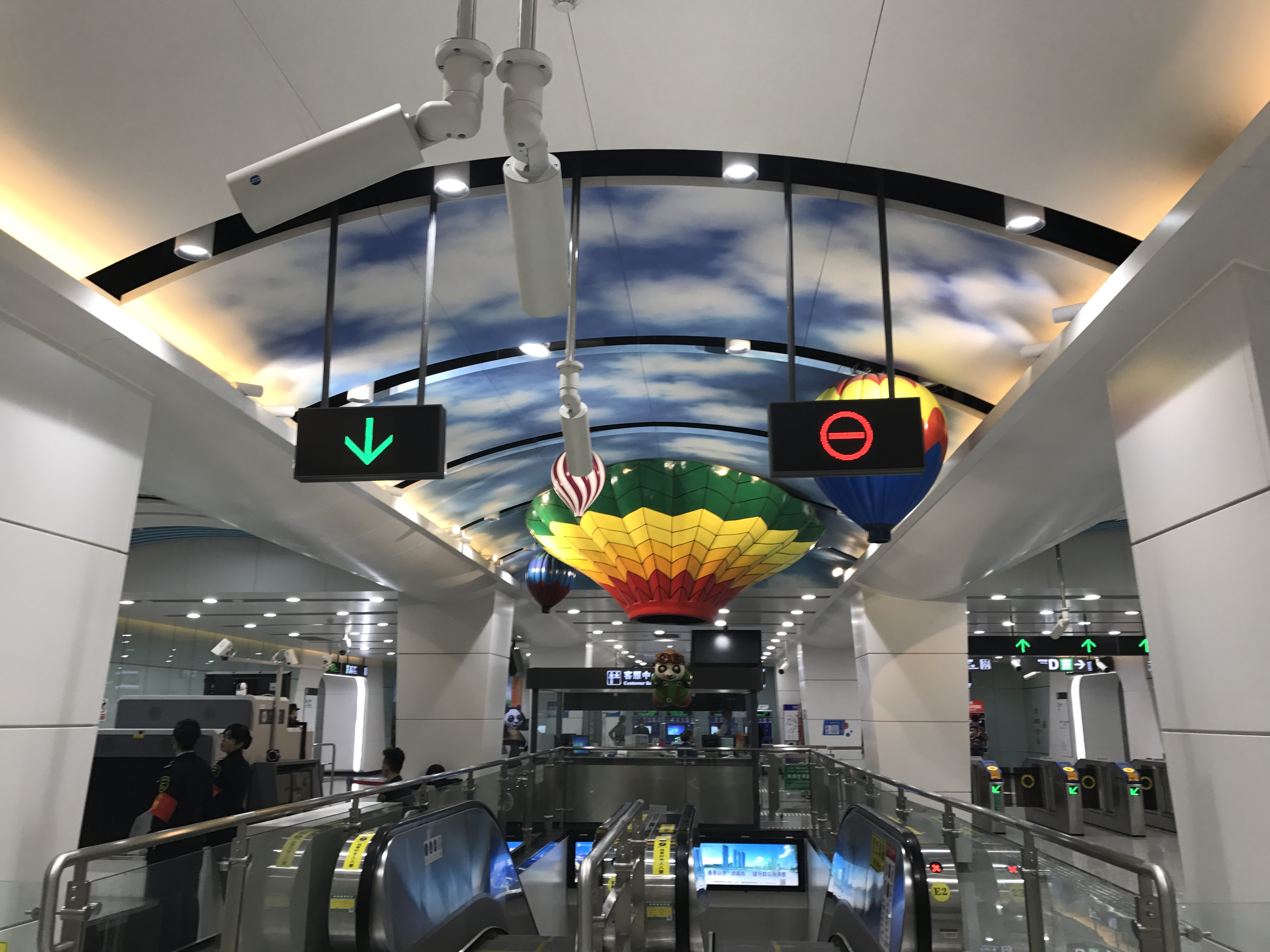 Decoration in Terminal 1 of Shuangliu International Airport Station, Chengdu Metro